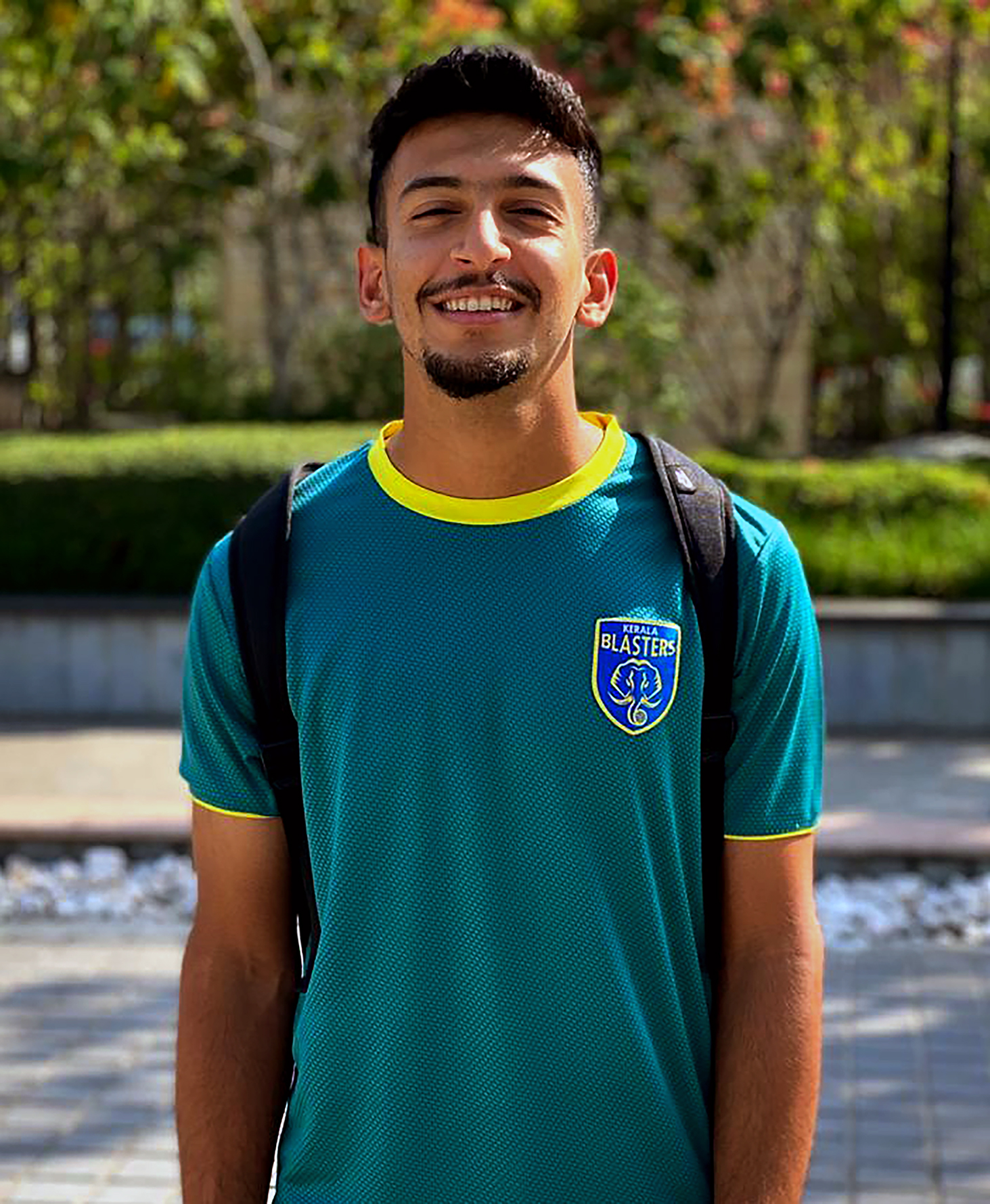 Photo of Indian National footballer Sahal Abdul Samad